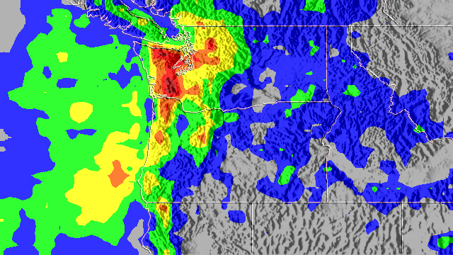 This image shows rainfall totals from a series of powerful storms that drenched the Pacific Northwest between November 28 and December 4, 2007. The storms brought hurricane-force winds with gusts greater than 190 kilometers per hour (120 miles per hour) and drenching rain. The heavy rain caused floods and landslides that closed roads, including Interstate 5, and trapped hundreds, reported the Associated Press. Rainfall totals were recorded by the Multisatellite Precipitation Analysis (MPA) at NASA Goddard Space Flight Center. From